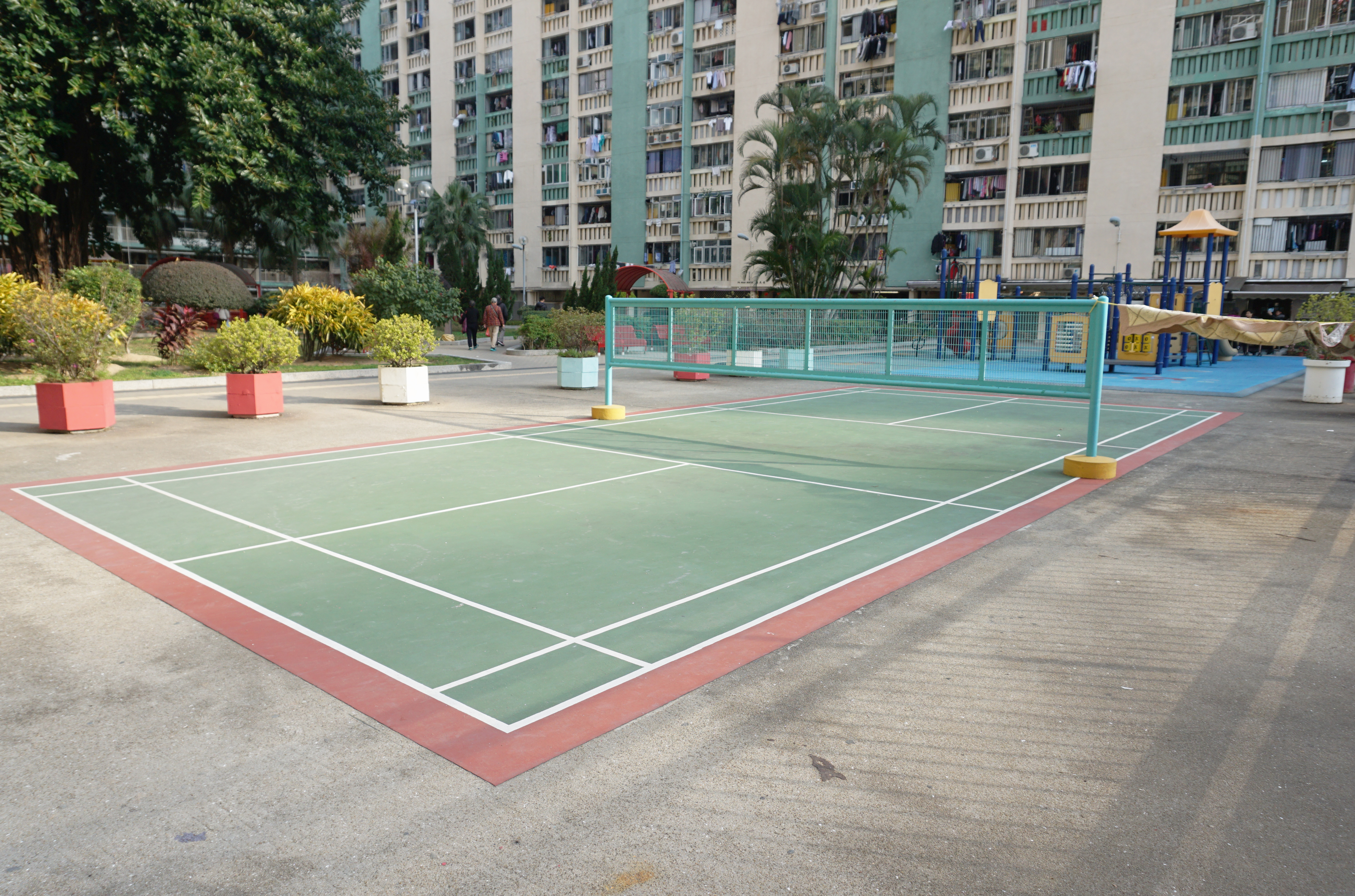 Oi Man Estate in Ho Man Tin, Hong Kong.